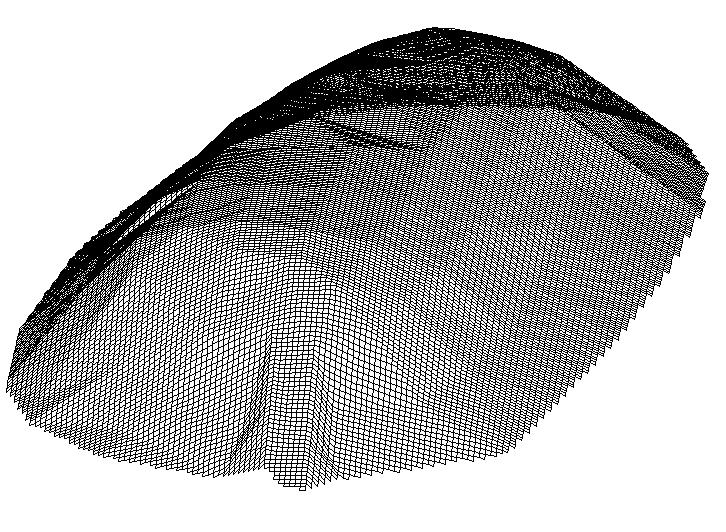 Simple Digital Terrain Model (DTM).